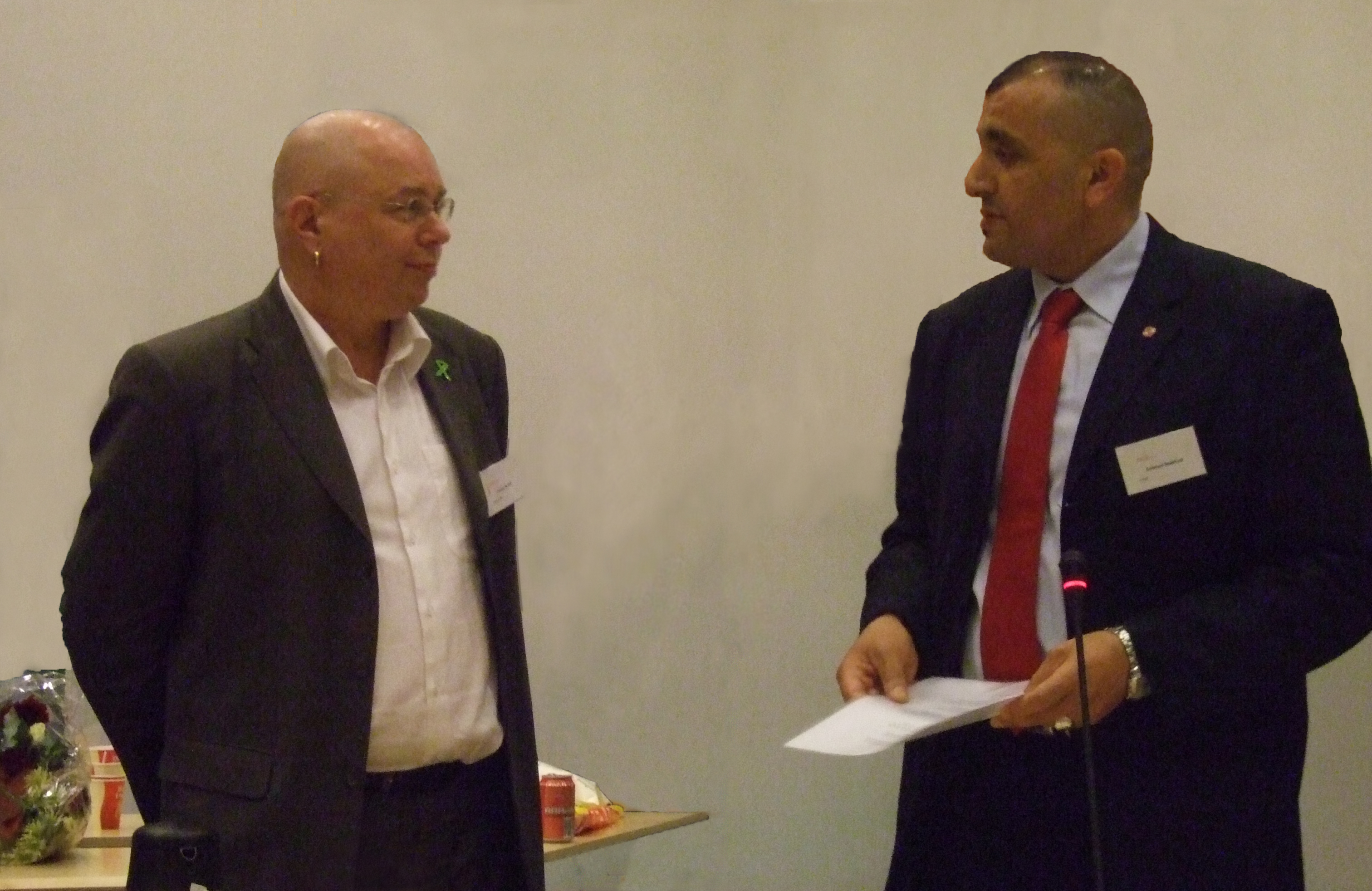 Paulus de Wilt being sworn into office